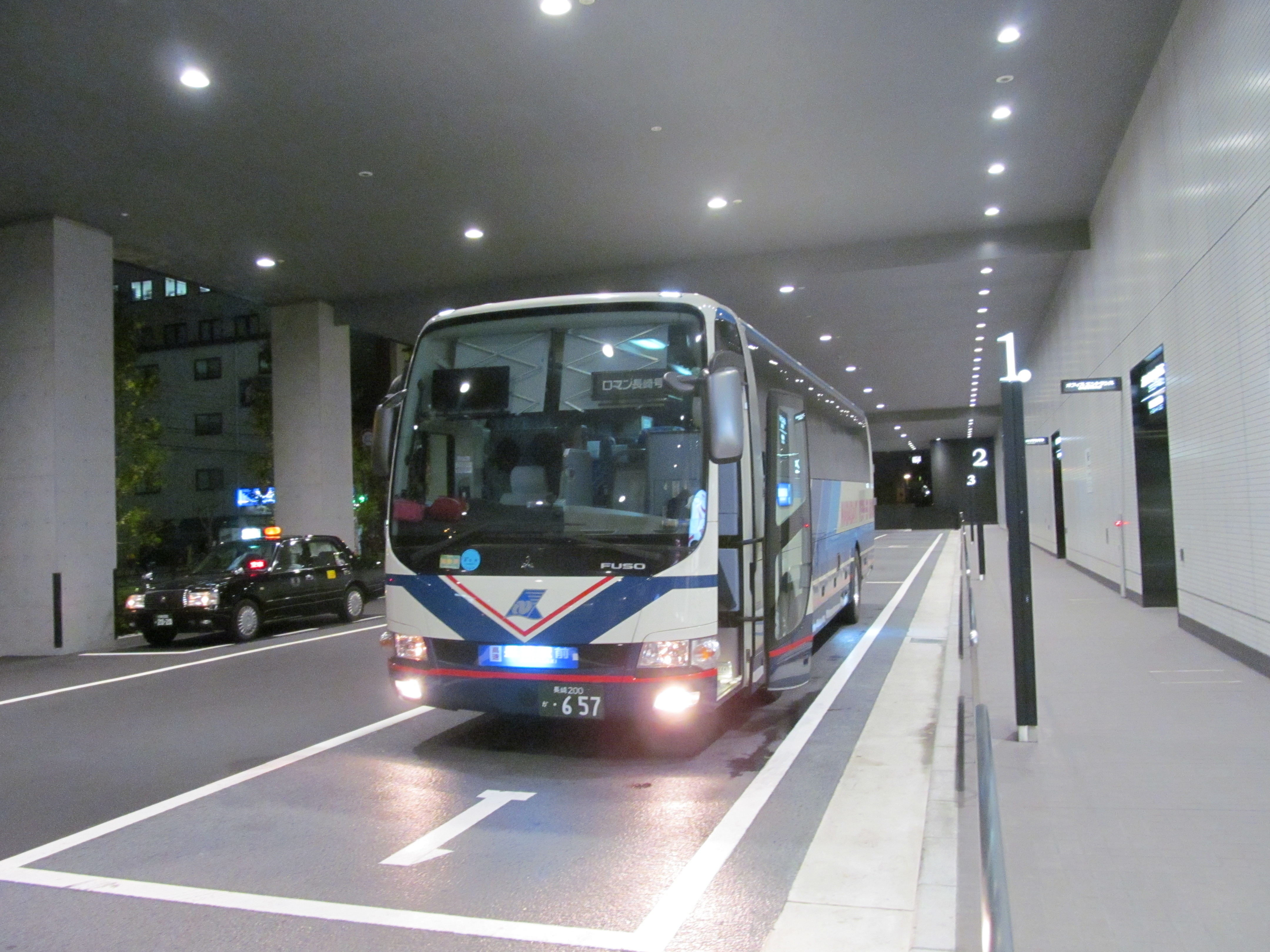 Roman Nagasaki Osaka Nagasaki AEROACE